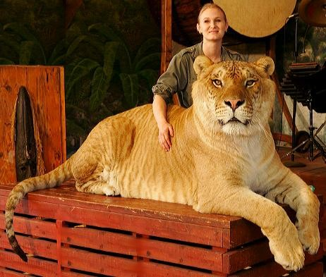 All 922 pounds of Hercules the Liger at Miami's Jungle Island.